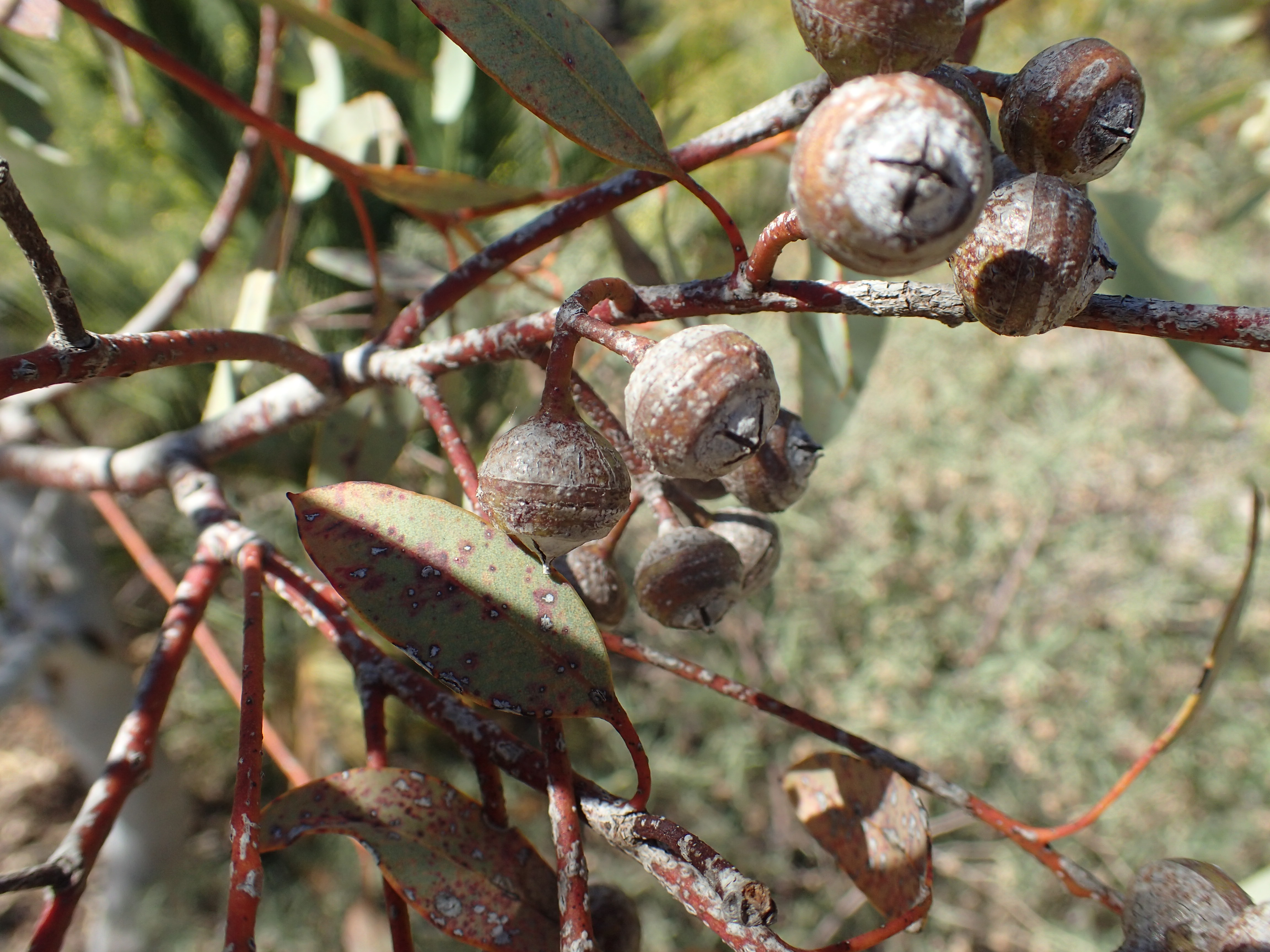 Fruit of Eucalyptus lane-poolei in Kings Park, Perth